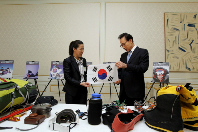 Oh Eun-sun, the first woman to climb all 14 peaks above 8,000 m in the Himalayas, visits Cheong Wa Dae and met President Lee Myung-bak on May13, 2010.